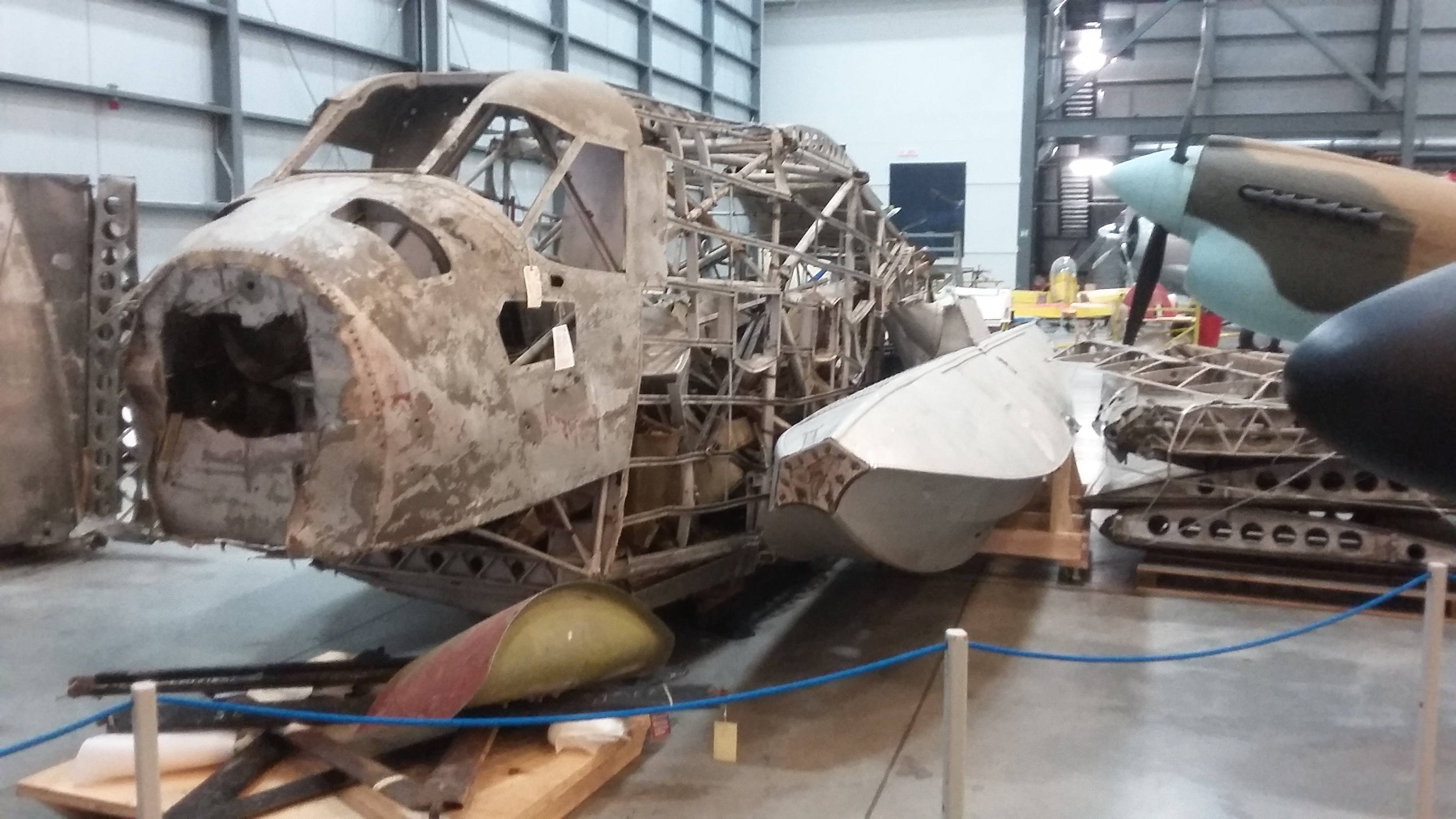 Fleet 50K Freighter CF-BXP (ex-CF-BJU, ex- RCAF 799) wreckage at the Canada Aviation and Space Museum in Ottawa